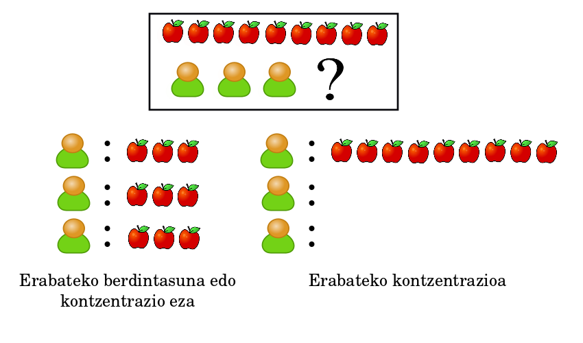 Diagram showing extreme cases in economic inequality.